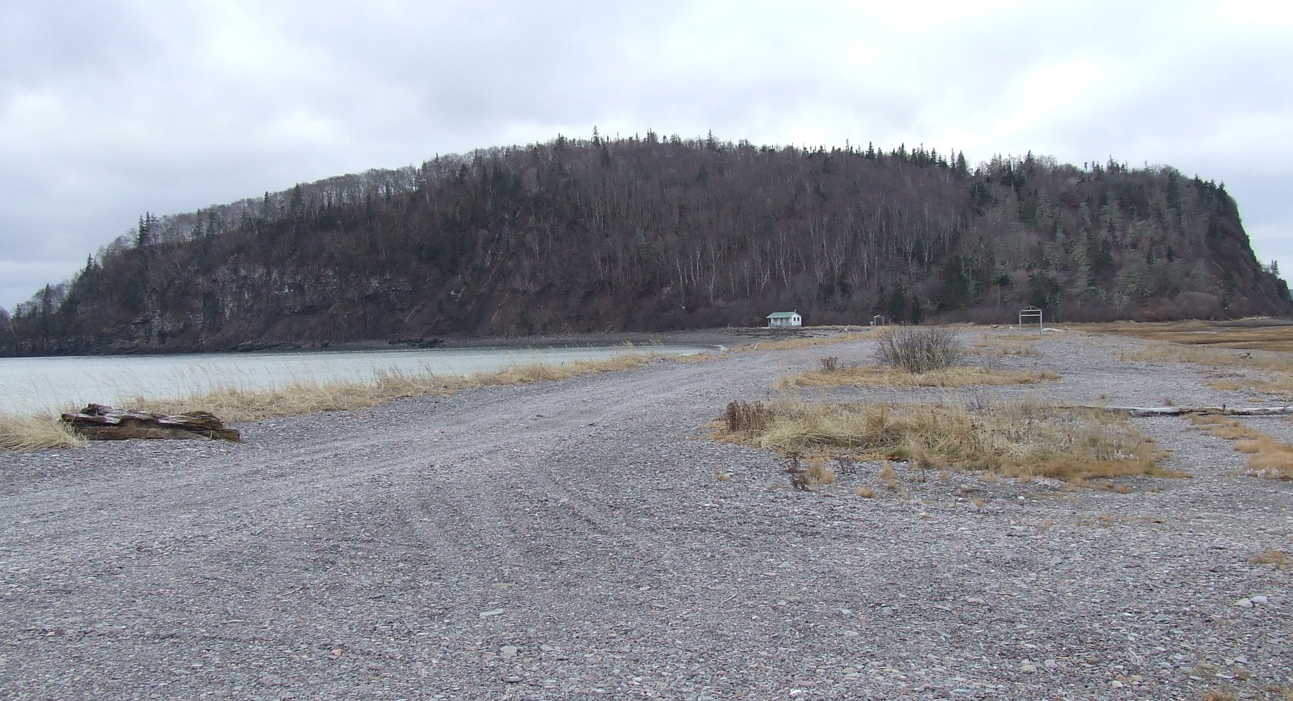 Partridge Island, Nova Scotia photographed from its eastern side.